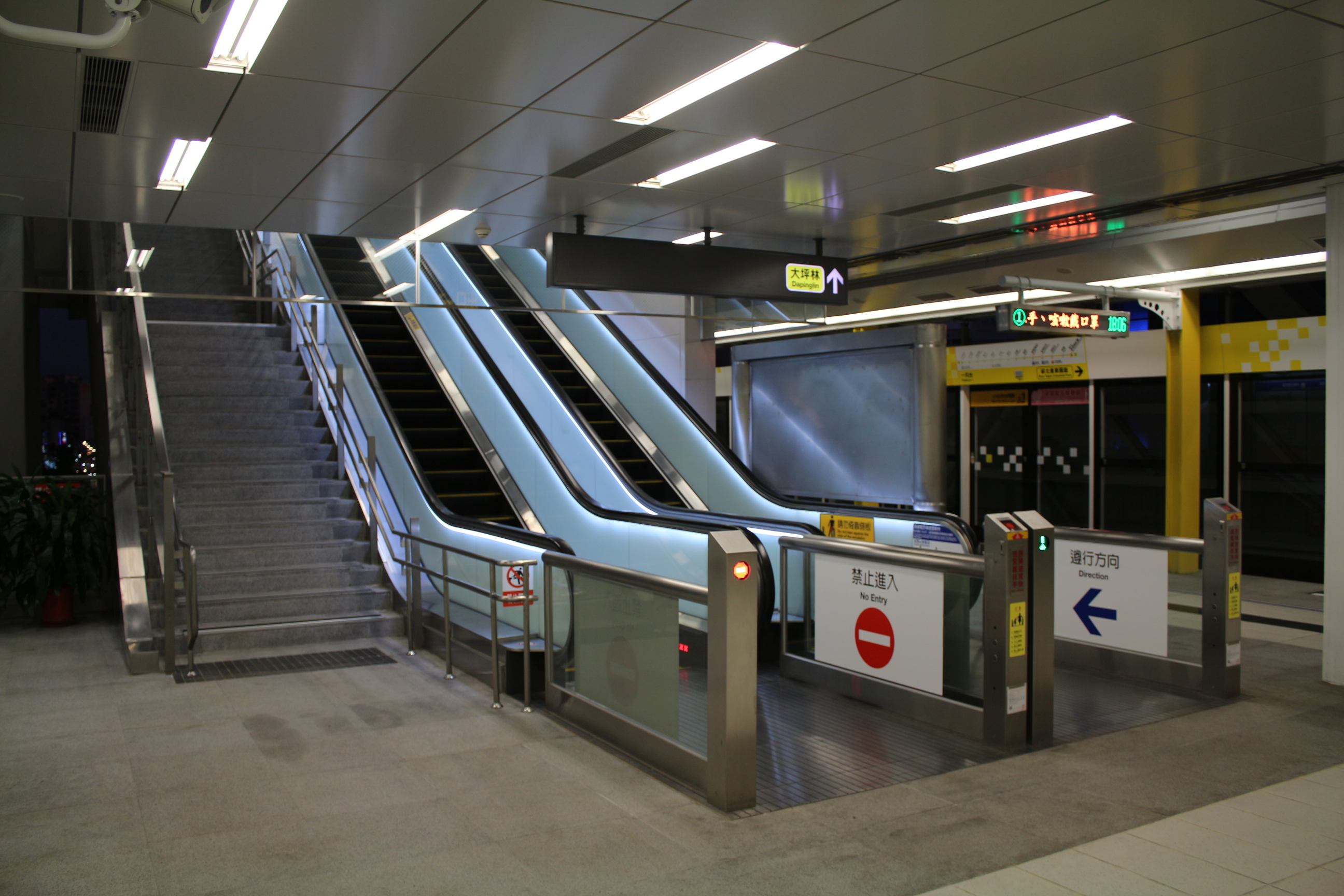 Taipei Metro Zhongyuan Station platform 1